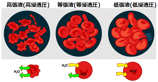 Osmotic pressure is the hydrostatic pressure produced by a solution in a space divided by a differentially permeable membrane due to a differential in the concentrations of solute.